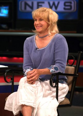 Jockey Julie Krone discussing her riding career. I personally took this photo with my camera. It is NOT a screenshot. See my website for more photos.